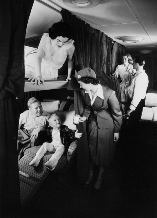 Catalog #: 00061823 Manufacturer: Boeing Designation: 377 Official Nickname: Stratocruiser Notes: Repository: San Diego Air and Space Museum Archive